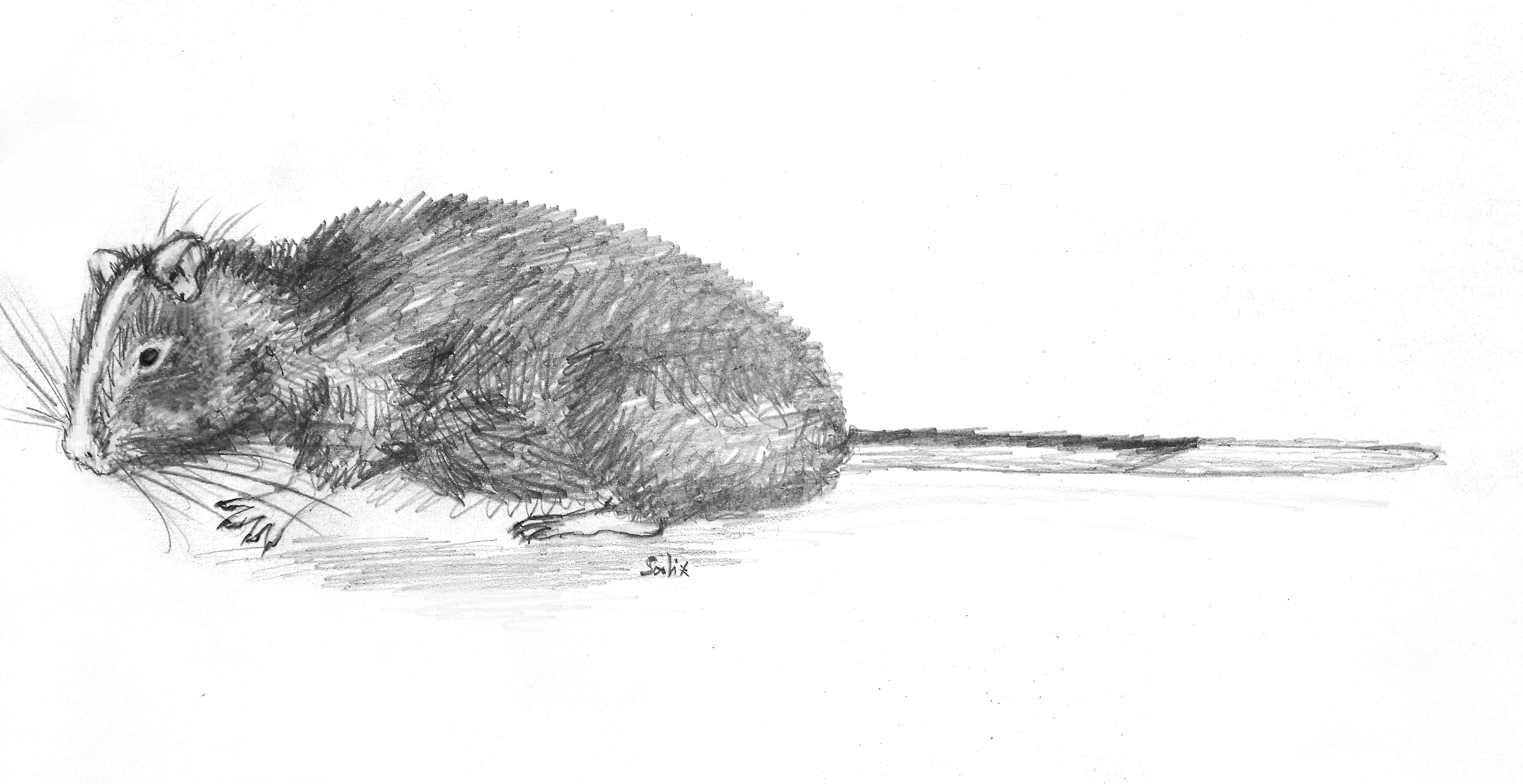 Cuscomys oblativa. Artist view. Pencil drawing, 2015.